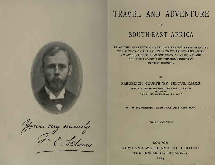 Cover of Travel And Adventure In South East Africa by Frederick Selous